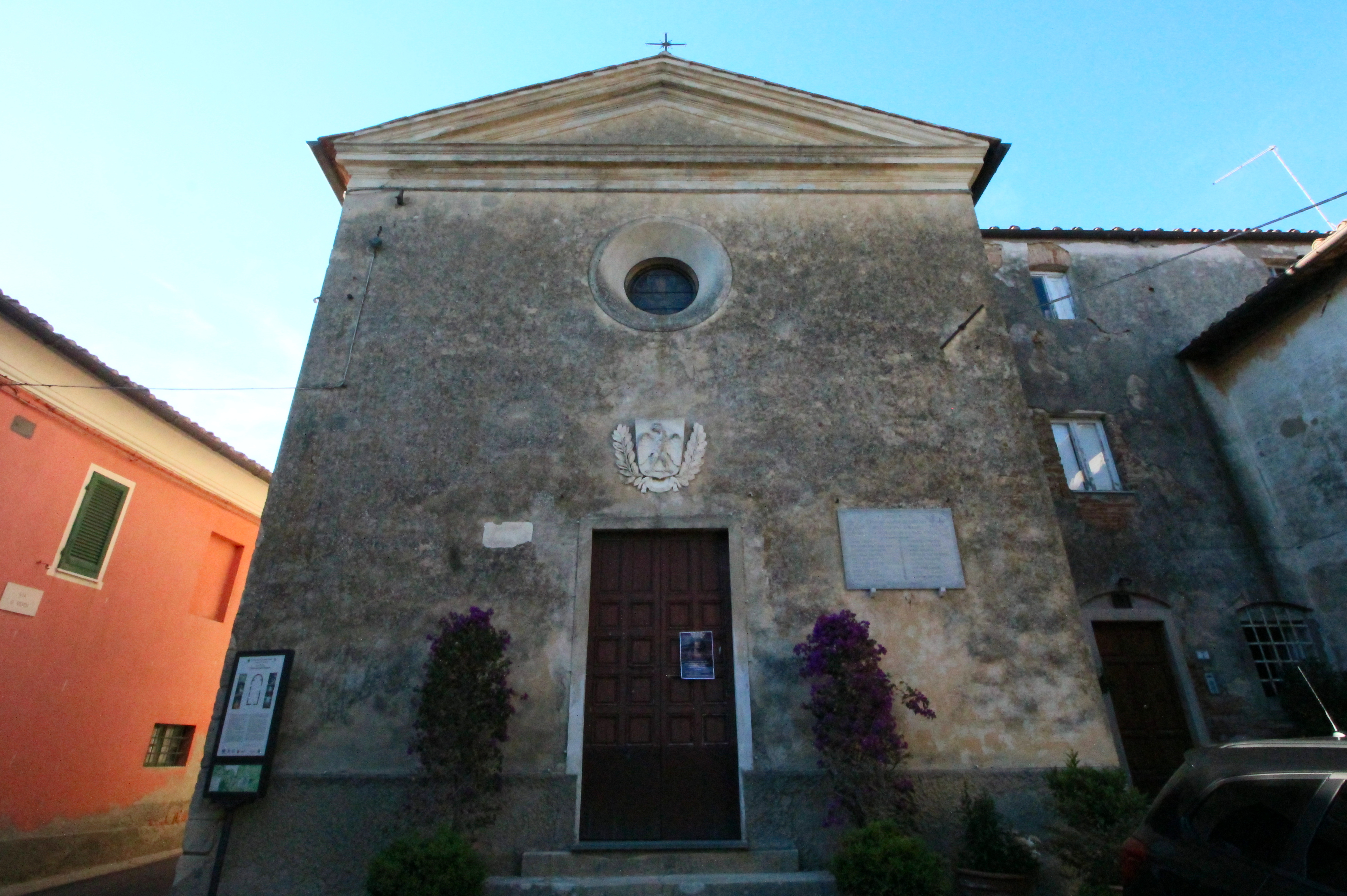 Church Sant'Ermete, in Sant'Ermo, hamlet of Casciana Terme Lari, Province of Pisa, Tuscany, Italy